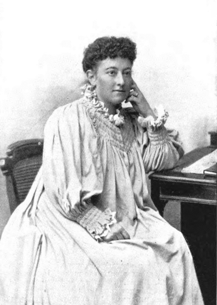 Olive Schreiner